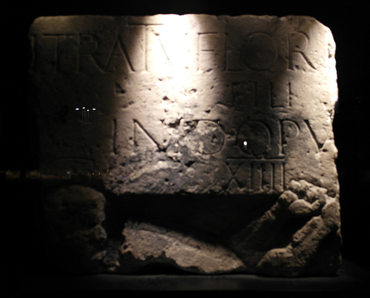 Ancient Roman relief from a lime stone grave monument found in 1963/64 at the bottom of the Meuse River, having been re-used to strengthen the foundations of the Roman bridge of Maastricht. The image represents a Roman fighting a barbarian. The inscription makes clear that the momument was erected by Florus for his father. The relief is part of a window display in a public café on Plein 1992. Collection of Centre Céramique, Maastricht, the Netherlands.